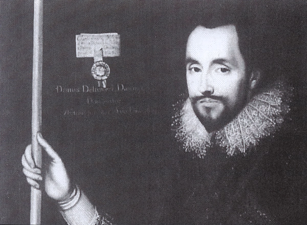 Sir John Done, Master Forester of Delamere Forest (1577–1629) Oil painting by unknown 18th century artist